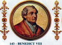 Portrait of Pope Benedict VIII in the Basilica of Saint Paul Outside the Walls, Rome